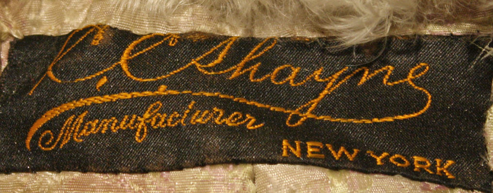 American; Ensemble